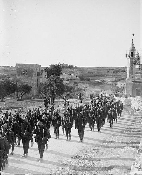 Turkish soldiers marching past Am. [i.e., American] Colony on Nablus Road [Jerusalem] - minaret of Sa'ad & Said Mosque